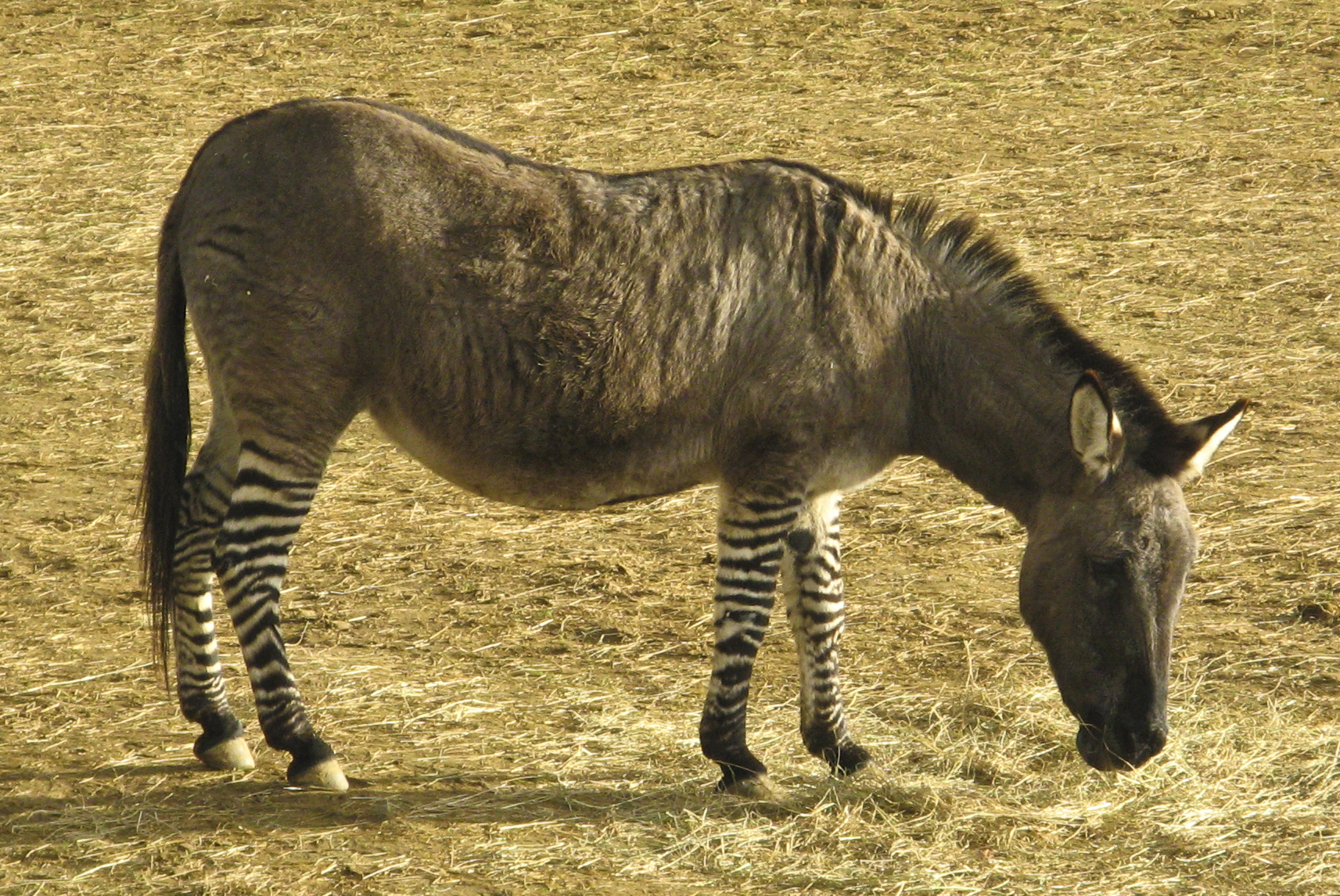 The Zonkey at Colchester Zoo, England